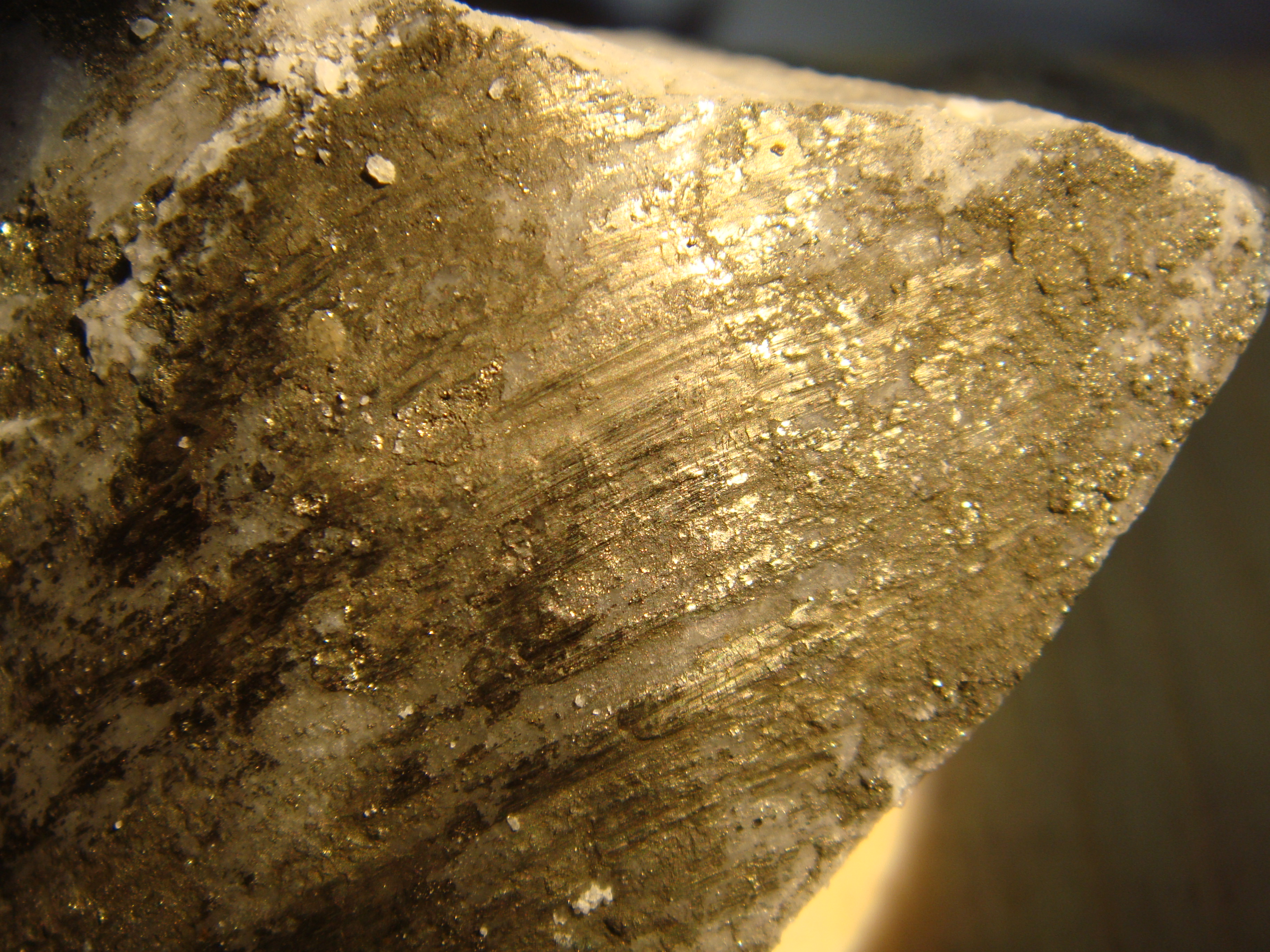 A slickenside of pyrite. This is a small fault/shear plane found in HQ core. This slickenside shows a dextral sense of movement, as seen by the small steps, all facing the bottom left of the picture, indicating the face of this plane moved to the right, with the other half (removed) moved to the left, and thus, across the fault, the sense of motion was to the right. Width of rock in field of view is about 60 mm.